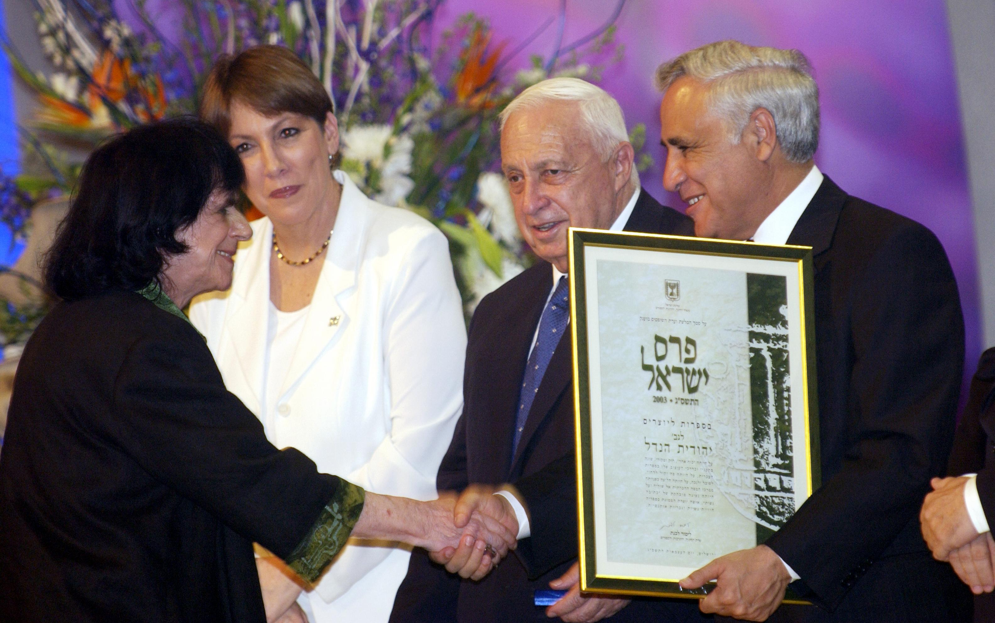 Israel prize award ceremony, at Jerusalem theater. in photo, pres. Moshe Katsav presenting author Yehudith Hendel with the literature Israel prize.